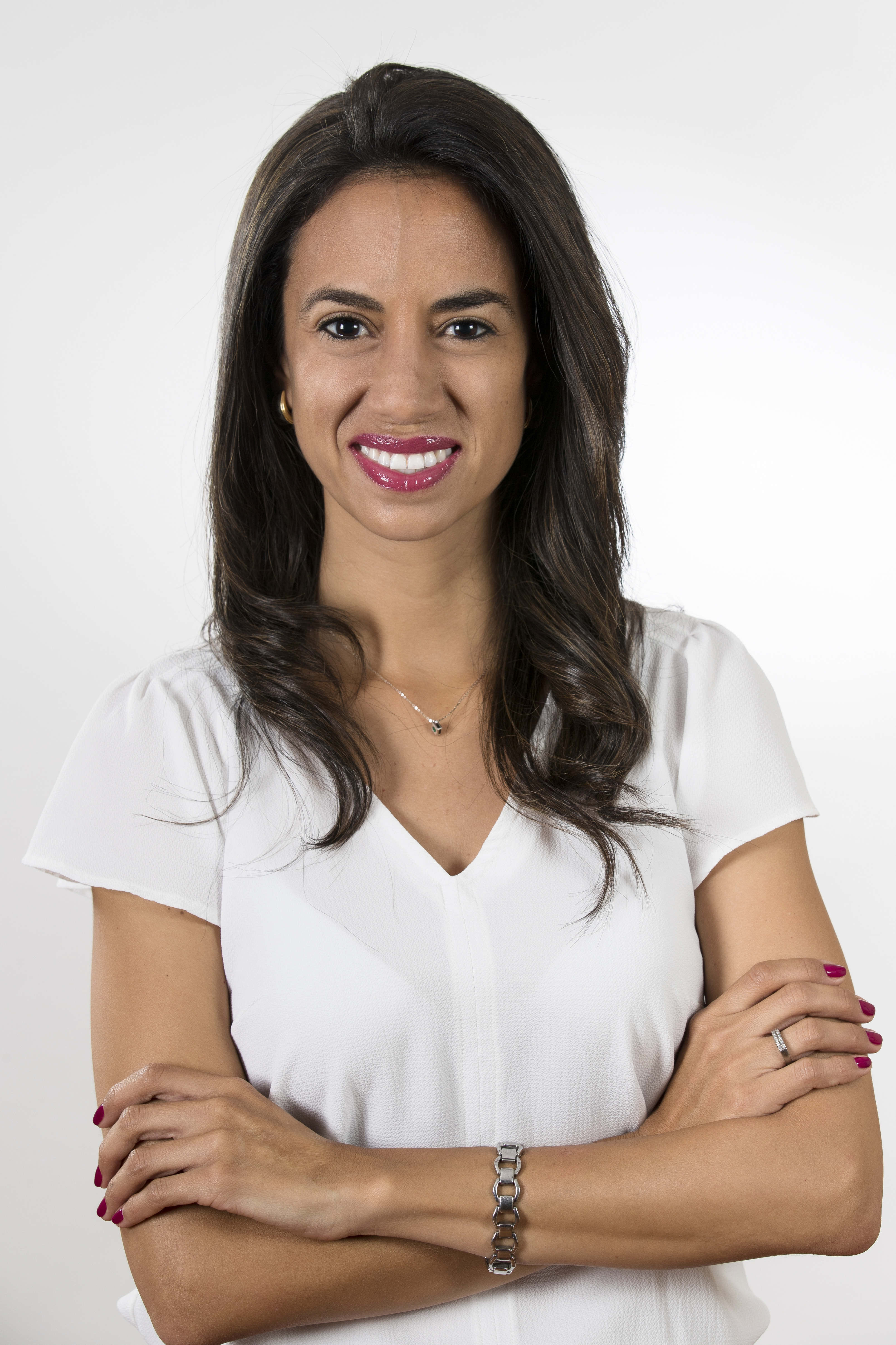 Fotografía oficial de Paulina Andrea Núñez Urrutia